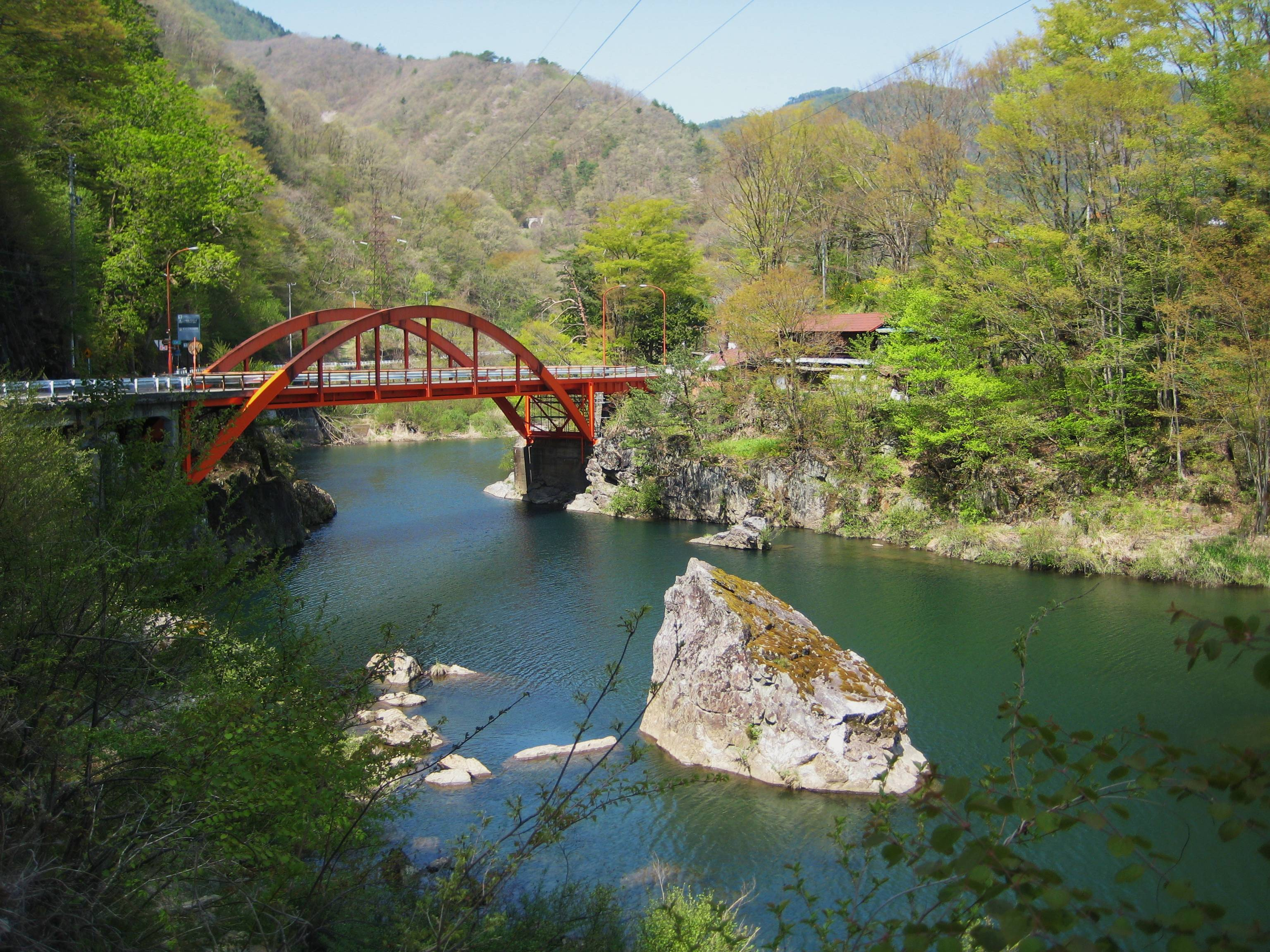 Ōtaki River.